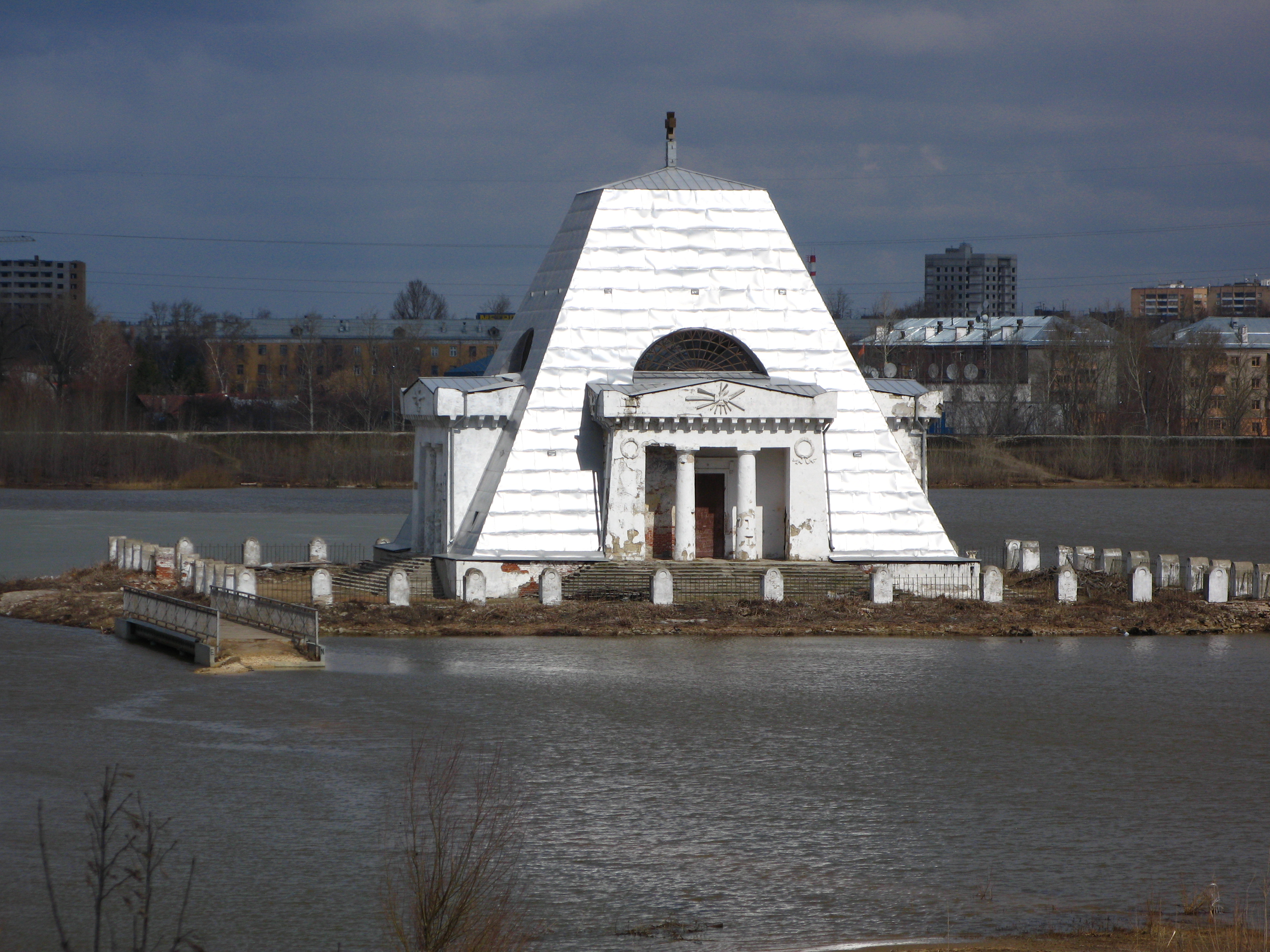 Monument erected by Ivan Grozny to fallen Russian soliders at taking Kazan in 1552. Kazanka river, Kazan.